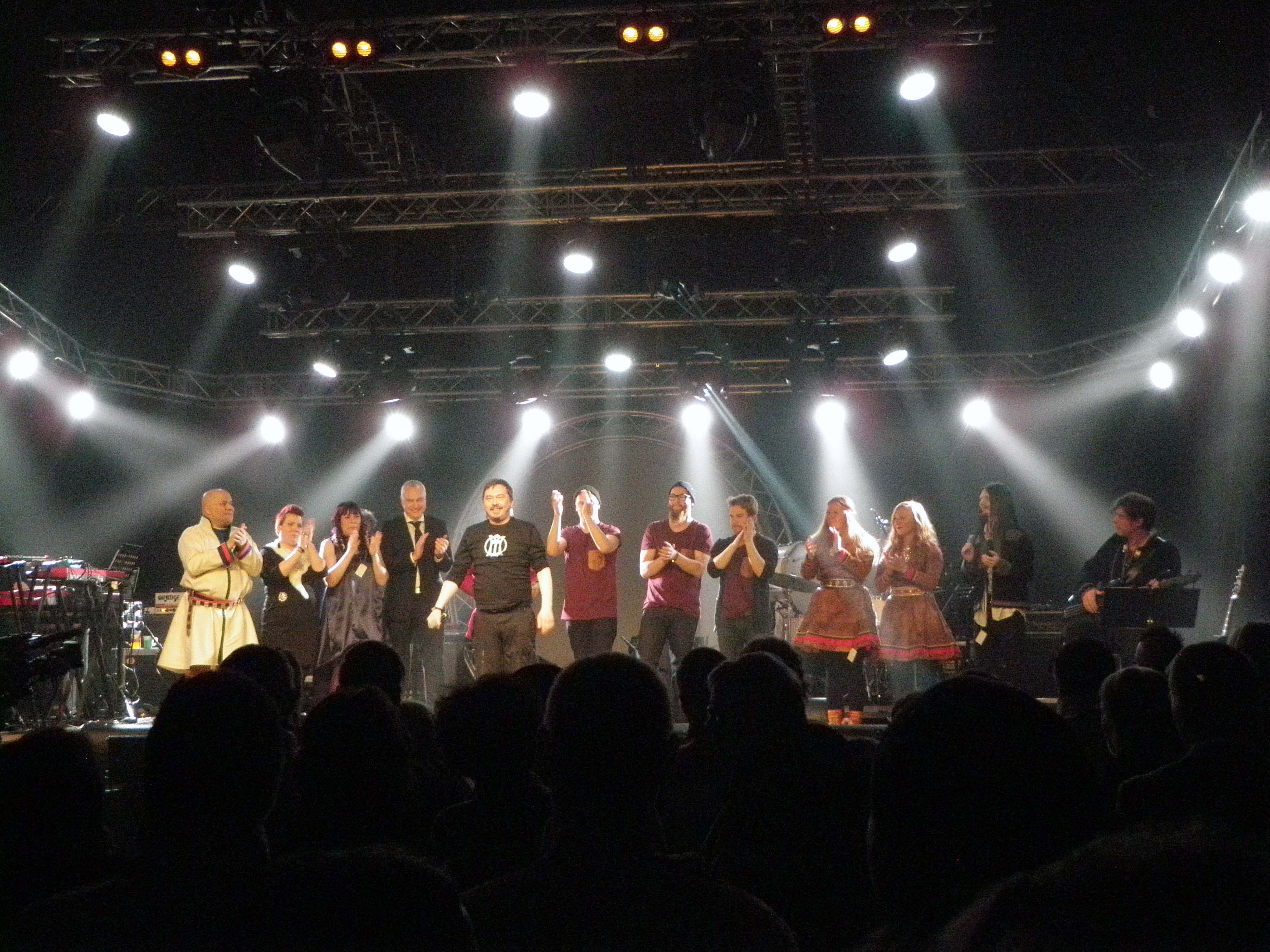 Contestants at the 2015 Sámi Grand Prix in Kautokeino, Finnmark, Norway. The 2015 winner of the singing contest, Nils Henrik Buljo is fifth from the left.